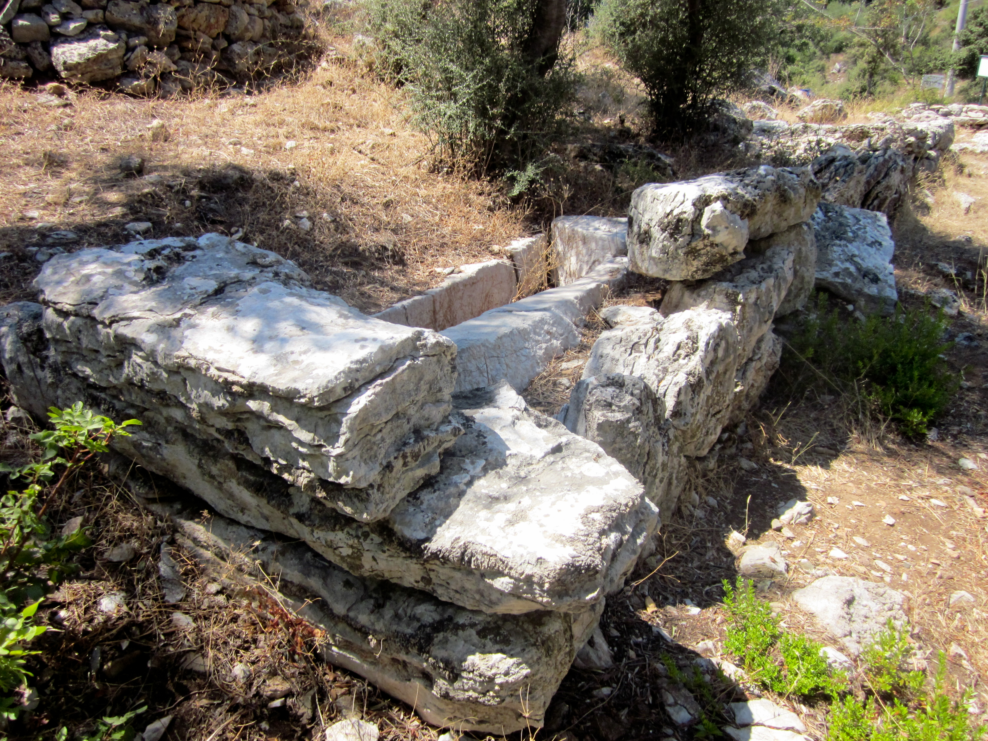 Tomb at the necropolis of Amos, Turunç, Turkey.